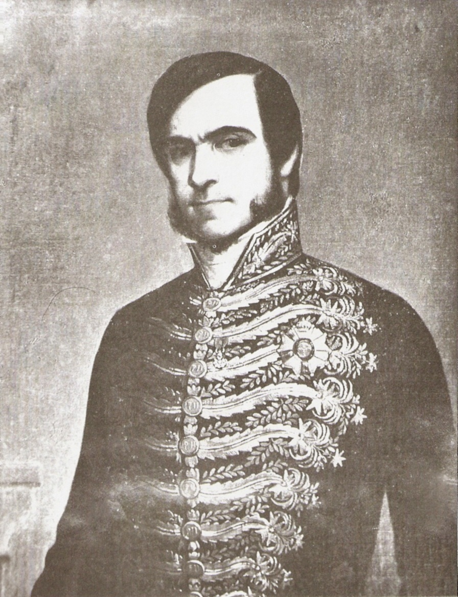 Painting despicting Honório Hermeto Carneiro Leão (later the Marquis of Paraná), 19th century Brazilian statesman, as president (governor) of Recife province, c.1850.